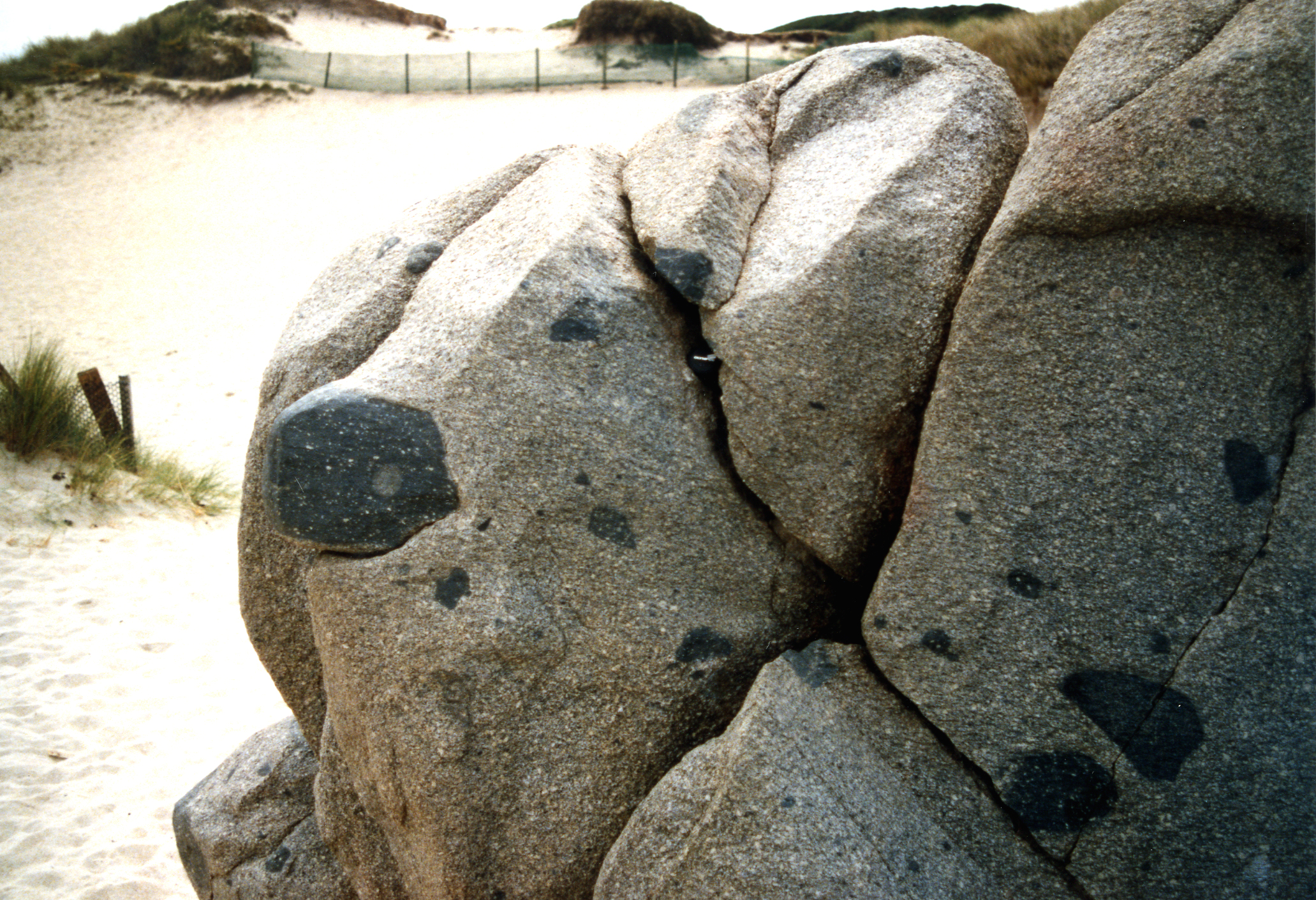 Xenoliths in granite, Herm, Channel Islands.